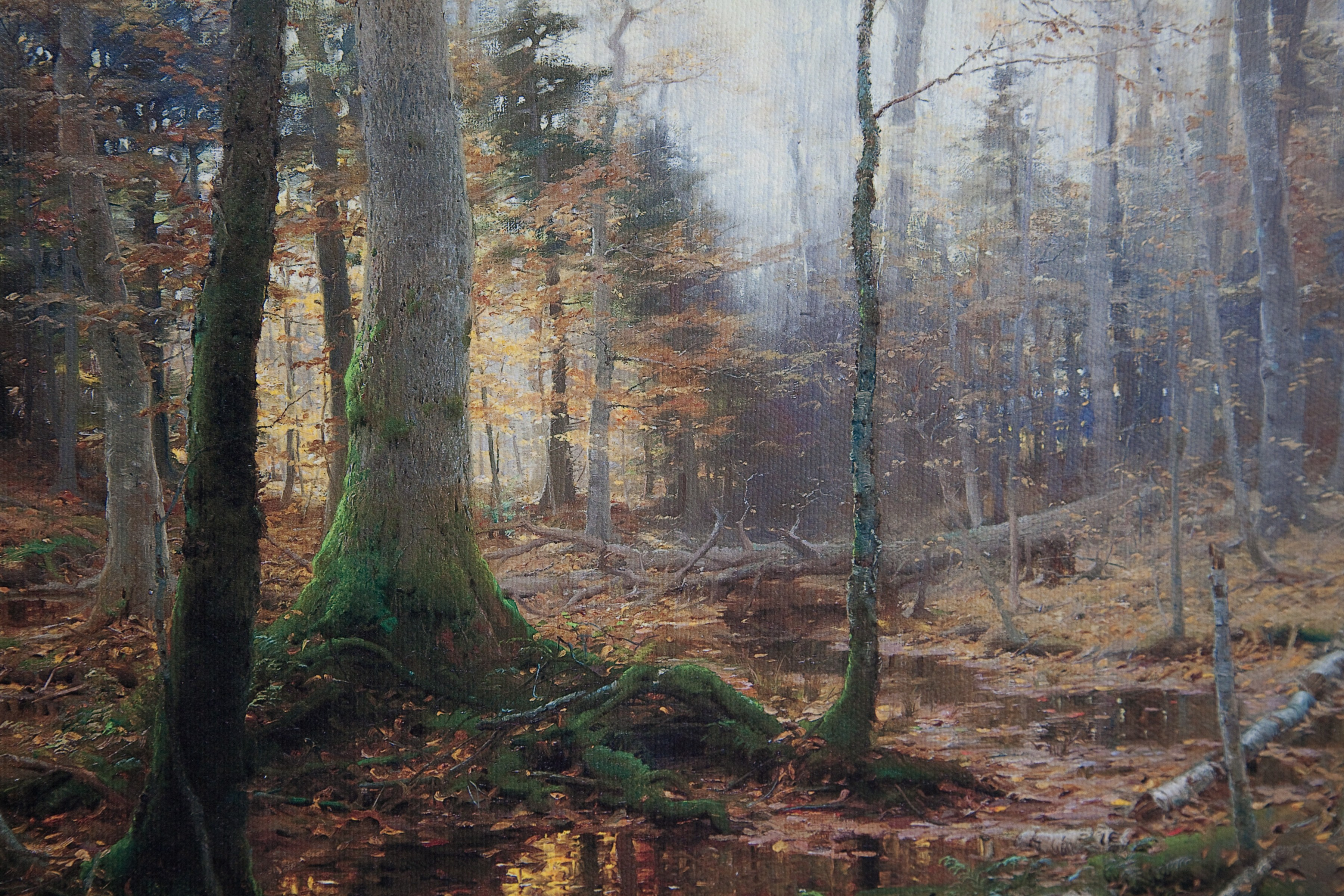 Fallen Monarchs by William Bliss Baker, 1886, Brigham Young University Museum of Art